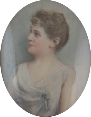 Antoinette Polk, Baroness de Charette circa 1890-1900.